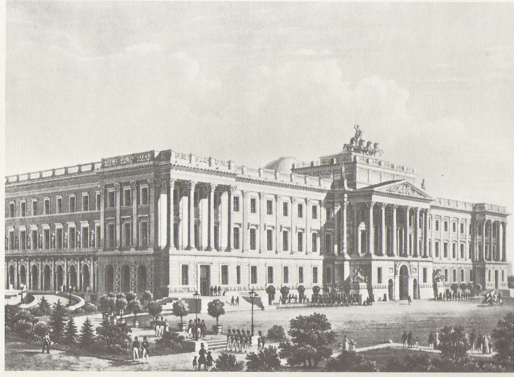 Engraving of the ducal residence in Braunschweig around 1840